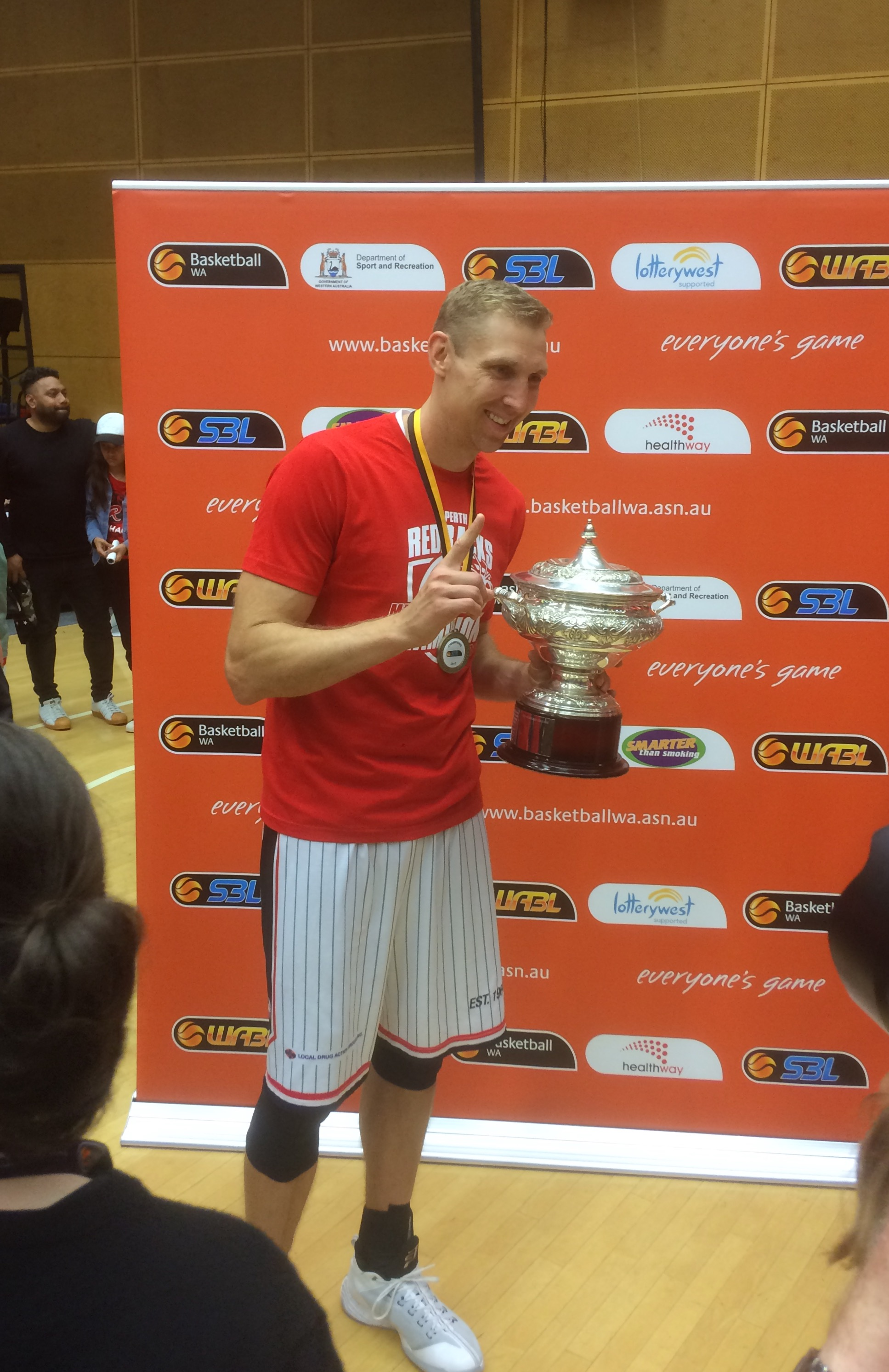 Shawn Redhage following the Perth Redbacks championship win